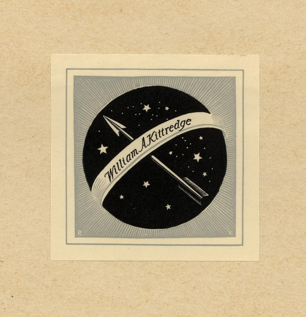 Pictorial Bookplates. Subject: Arrows; Stars. Subject - Personal Name: Kittredge, William A.